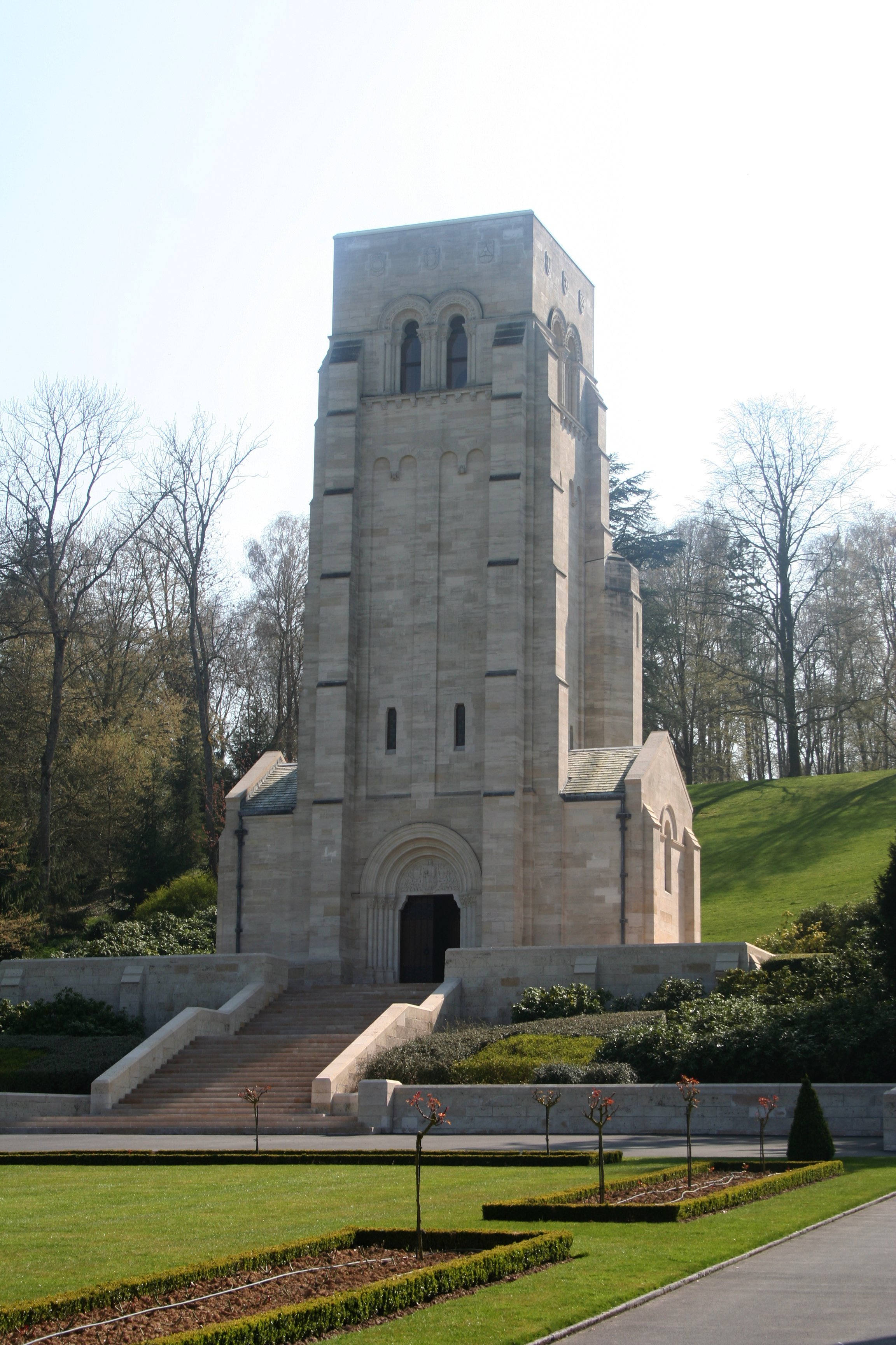 Chapel of the American Battle Monument of Belleau Wood, Belleau, France.